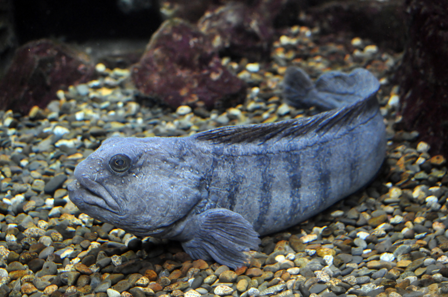 Anarhichas lupus